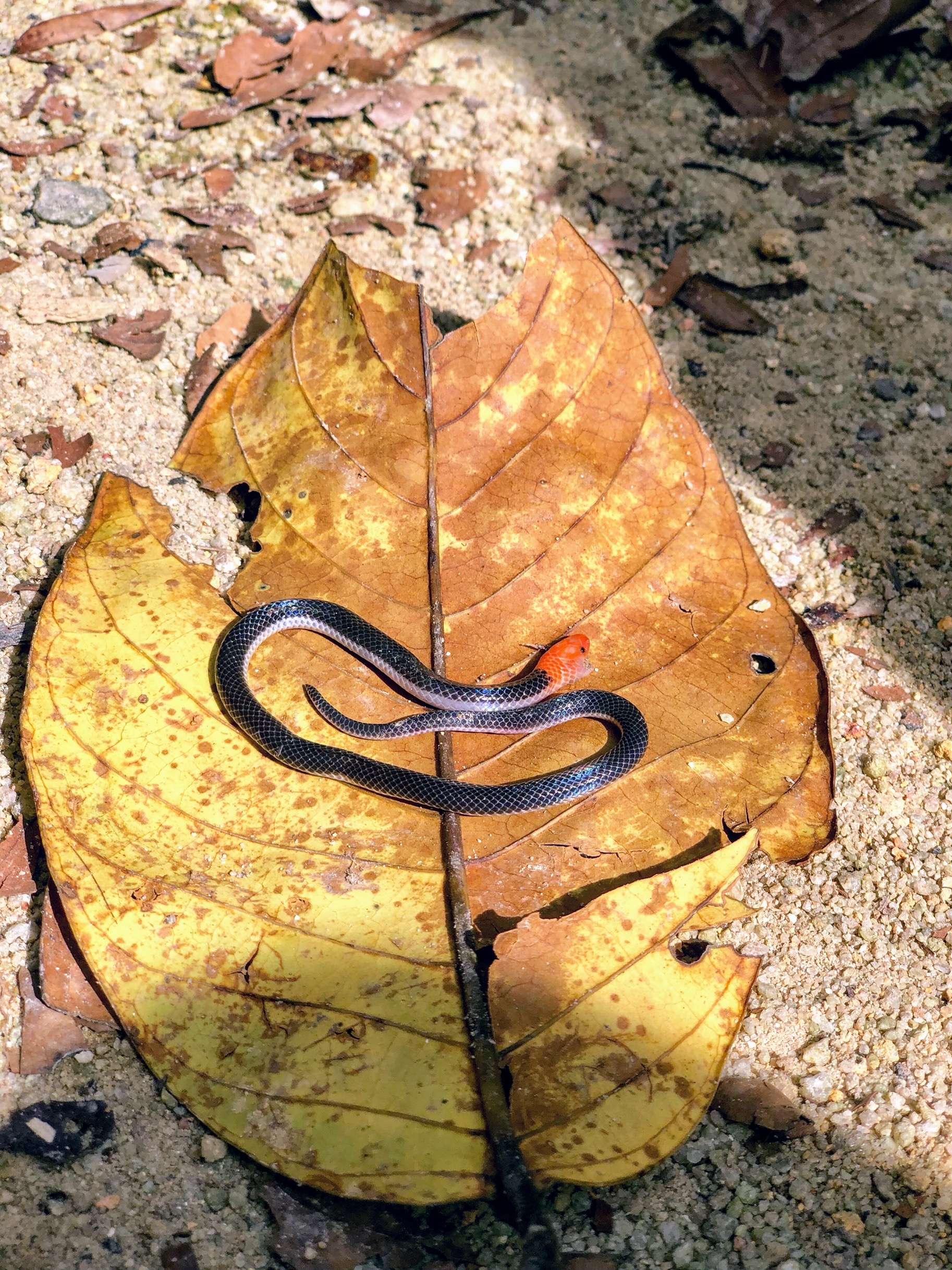 We found this dead Red-headed Reed Snake during a herp walk in Singapore’s Dairy Farm Nature Park.